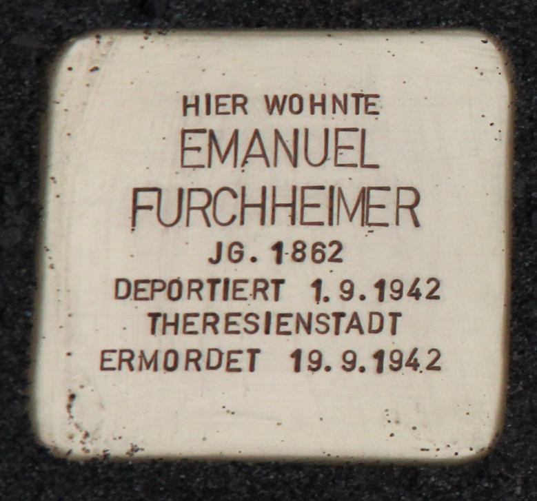 Stolpertein placed in Bad Mergentheim